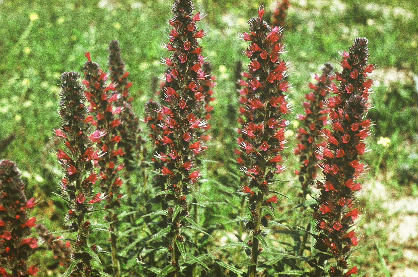 Taken in Shio Mgvime